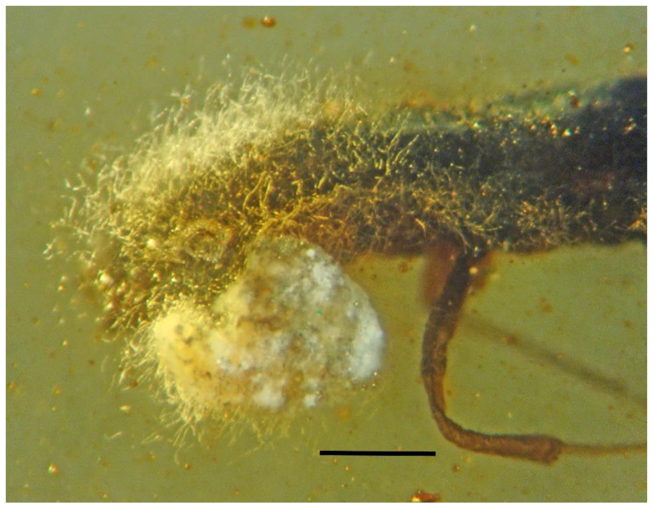 Palaeotylus femoralis (Coleoptera) covered with mycelium, conidiophores and conidia of the ambrosia fungus, Paleoambrosia entomophila (Ophiostomatales: Ophiostomataceae) in Burmese amber. Scale bar = 430 µm.